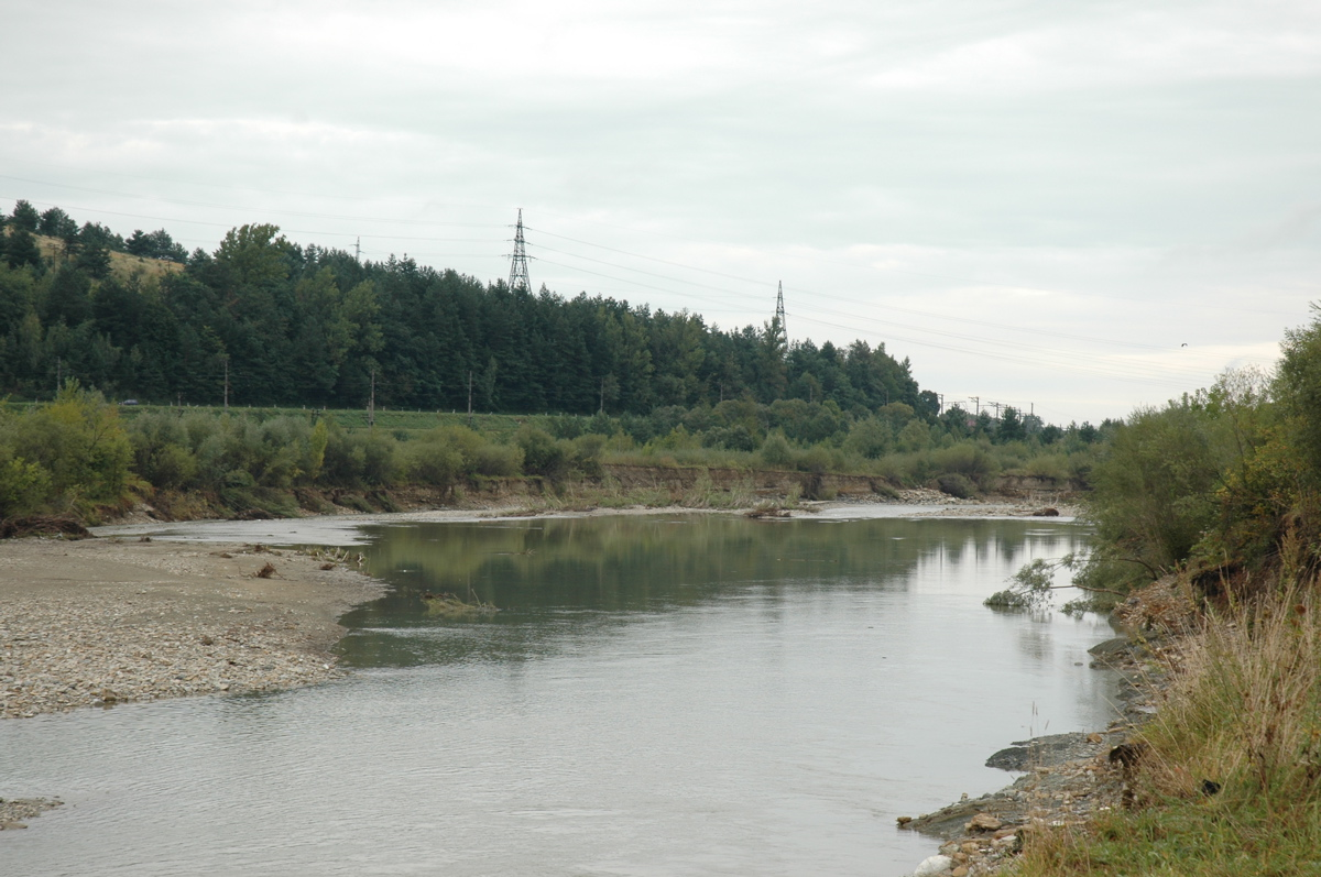 The Dnister river near Staryi Sambir